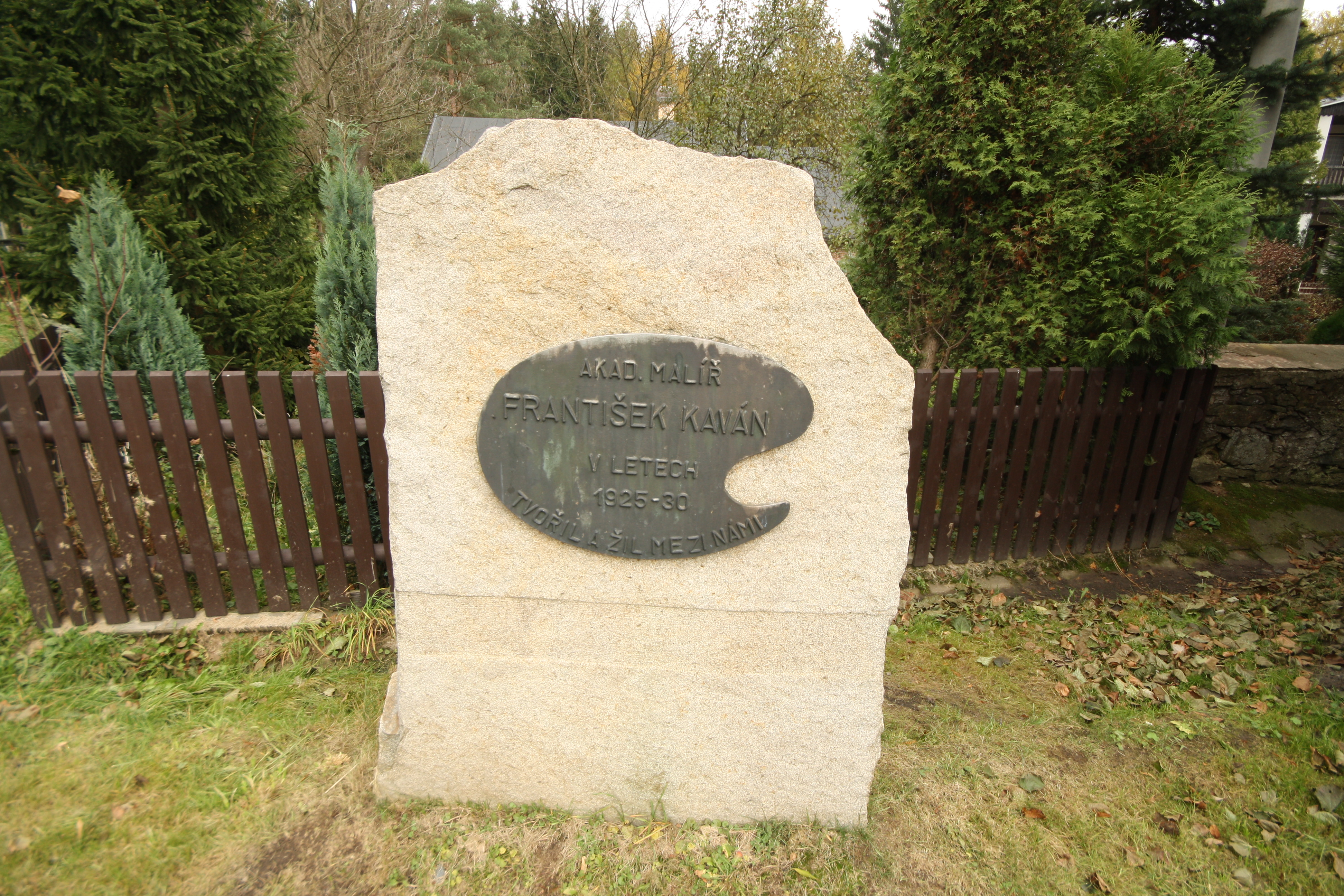 František Kavan Monument in Svobodné Hamry, Chrudim District.